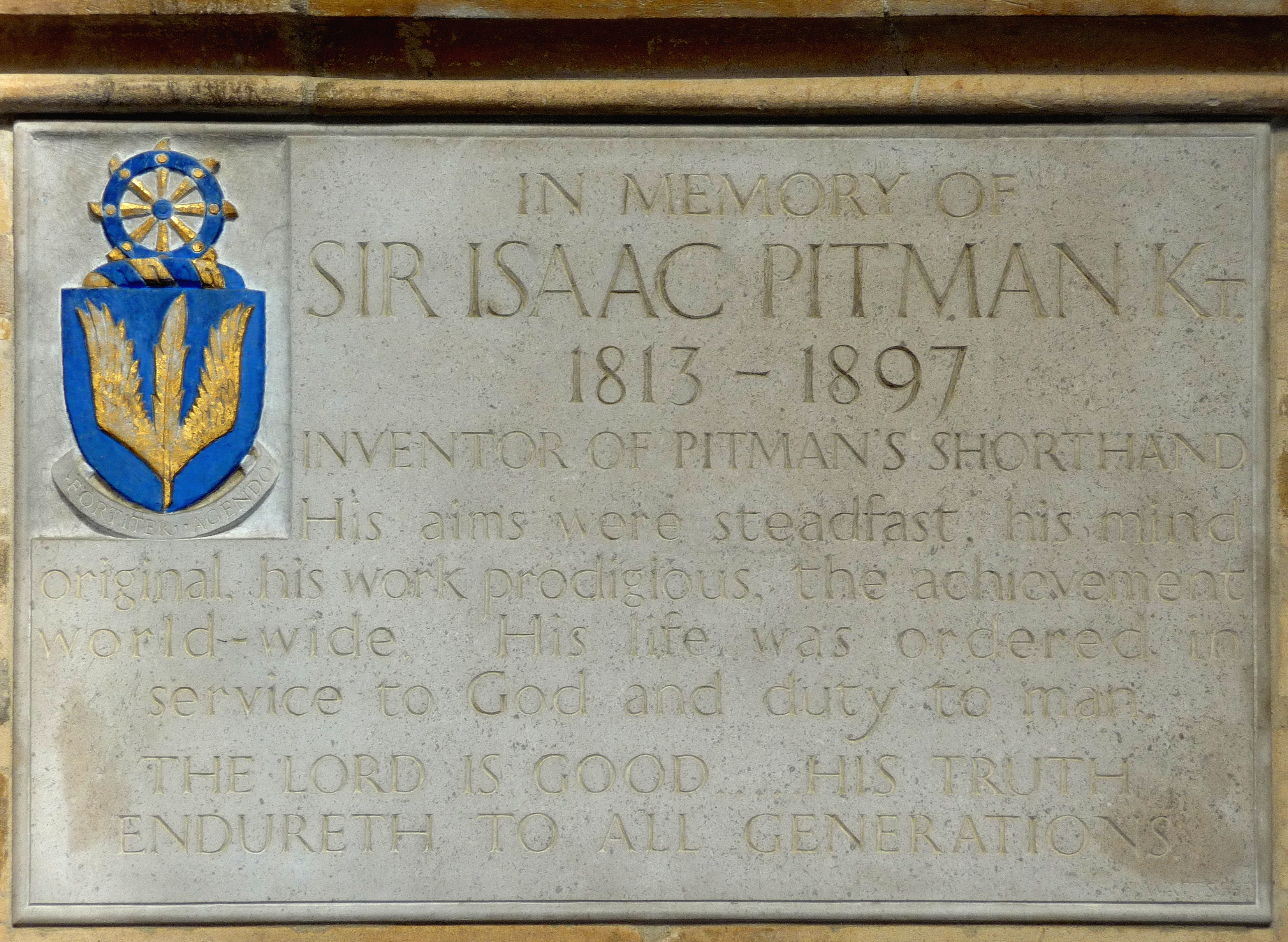 Memorial plaque of Isaac Pitman (inventor of a widely used system of shorthand) at north wall of Bath Abbey, Somerset, England